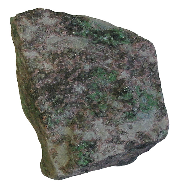 Photographer: Siim Sepp Date of the creation: 20th April, 2005.